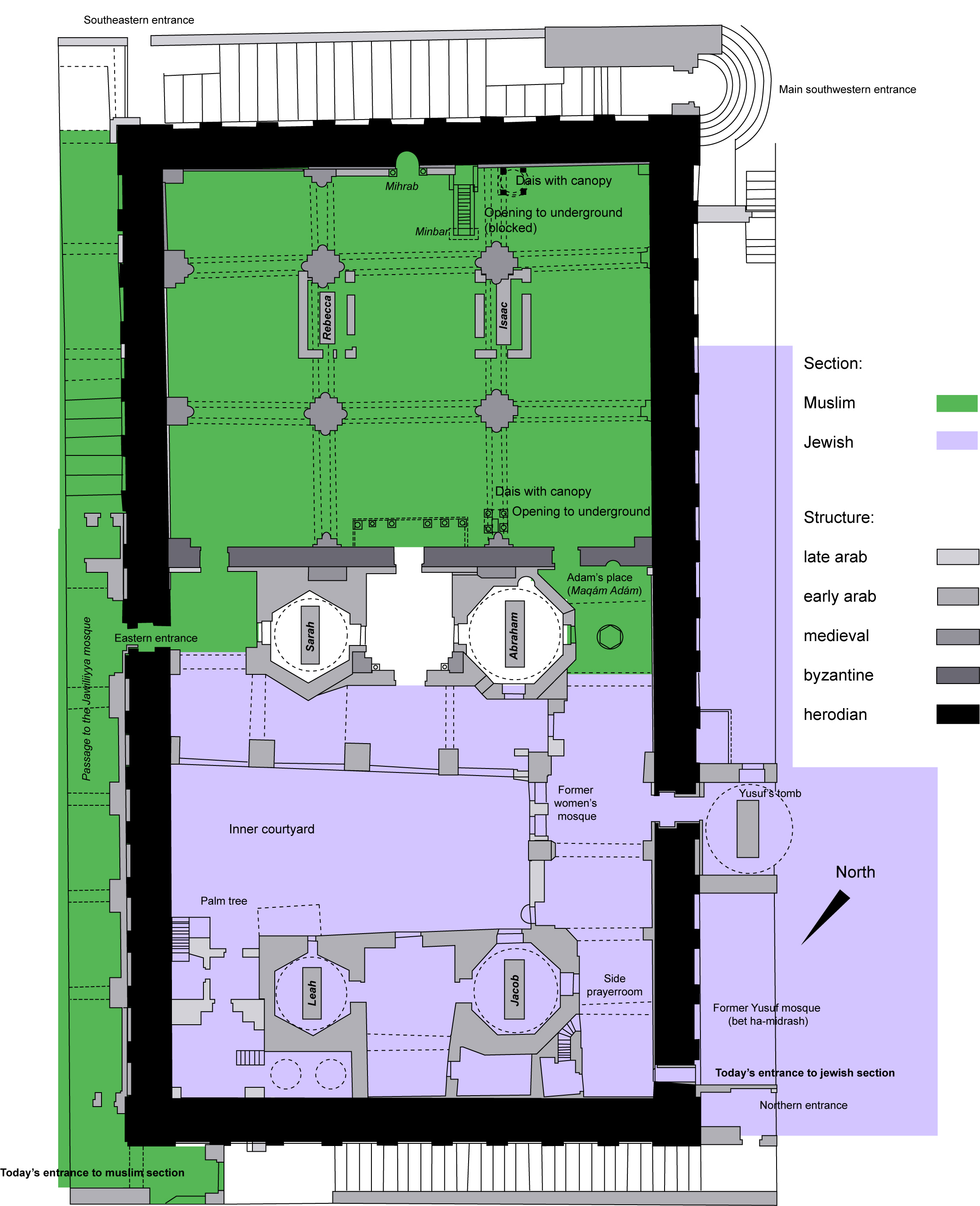 Cave of the Patriarchs